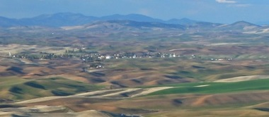 Cropped version of " for Skyline thumbnail on Oakesdale Wikipedia Page